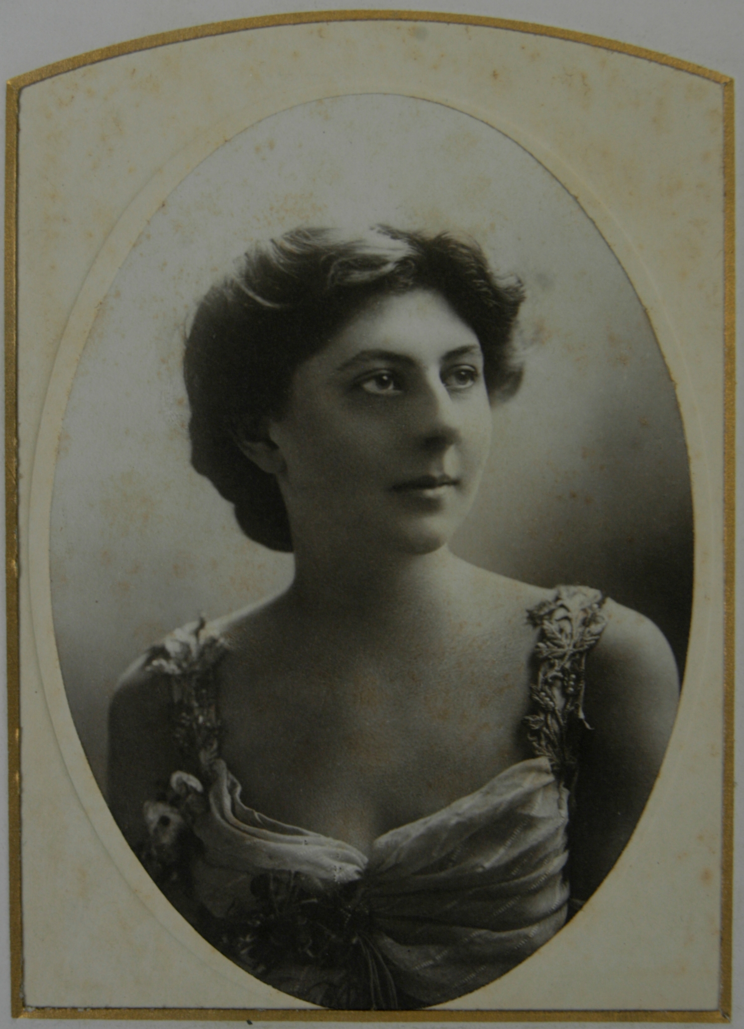 Photograph (by me, R. de Salis, Rodolph (talk) 00:59, 18 August 2015 (UTC)) of a photograph of Edith Margaret, Margery or Marjorie, Fane de Salis, aka Mrs. Thomas Frederick Lock Whittaker (born 1882 died 1932). Other information Photograph of Edith Margarey Fane de Salis, aka Mrs. Thomas Frederick Lock Whittaker, (born 1882 and died 1932).